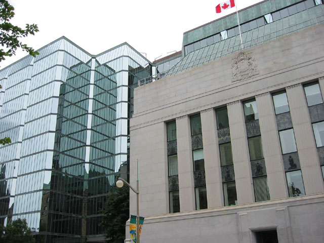 Bank of Canada Building, Ottawa, Canada, August, 2004